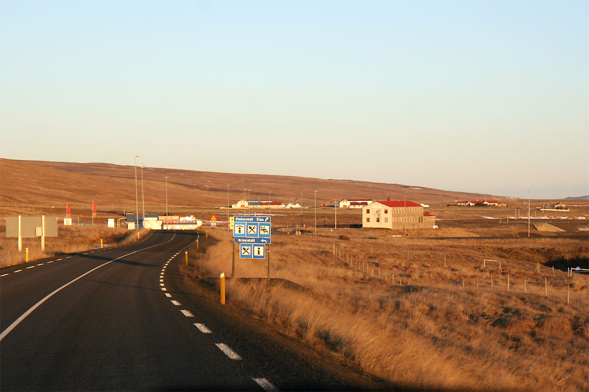 Junction and farmstead of Brú, start of the north coast along the ringroad. November 21 11:20 Iceland, November 2007 Photo by me user debivort (or friend, with permission given to upload and license freely).